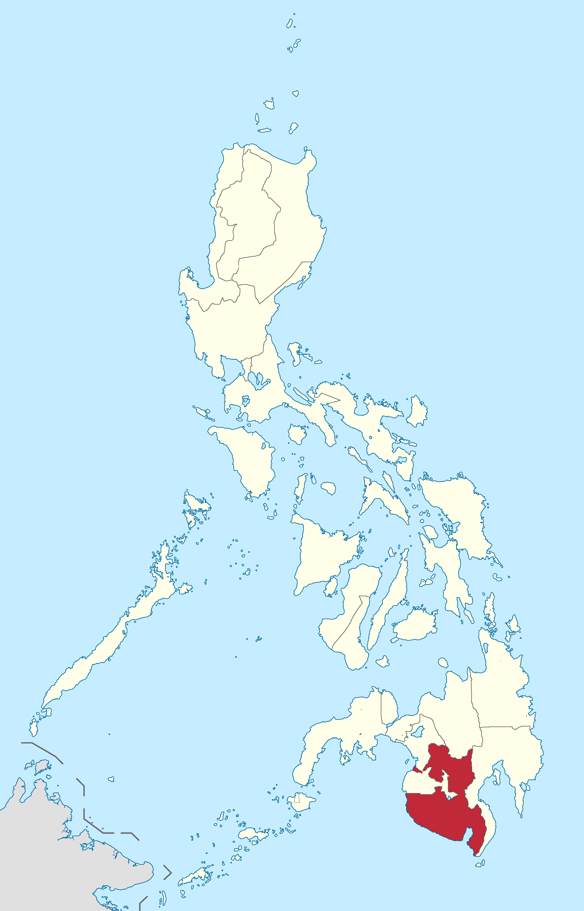 Location of SOCCSKSARGEN in the Philippines. Filipino: Kinaroroonan ng SOCCSKSARGEN sa Pilipinas.